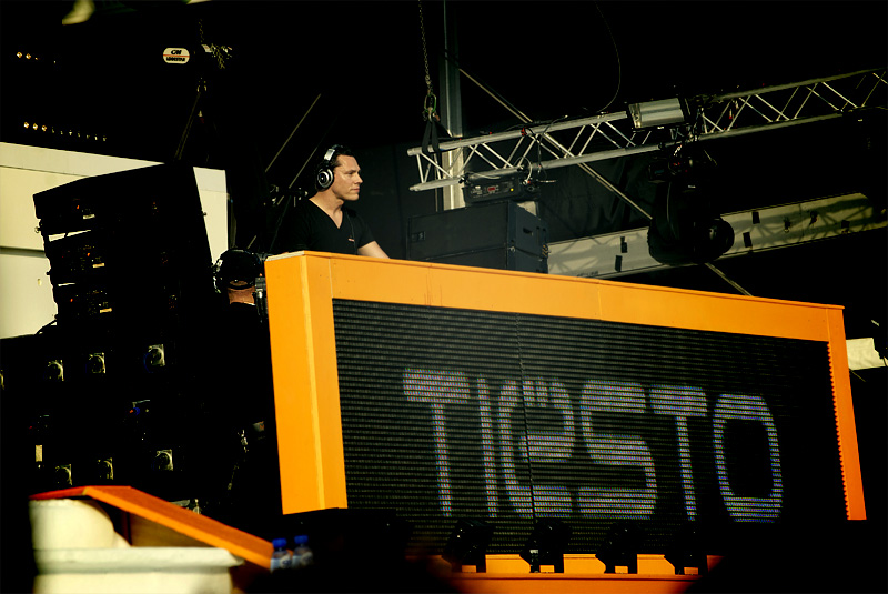 Tiesto May 1, 2009 Koninginnendag 2009